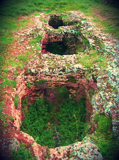 Yaylata 3 BG